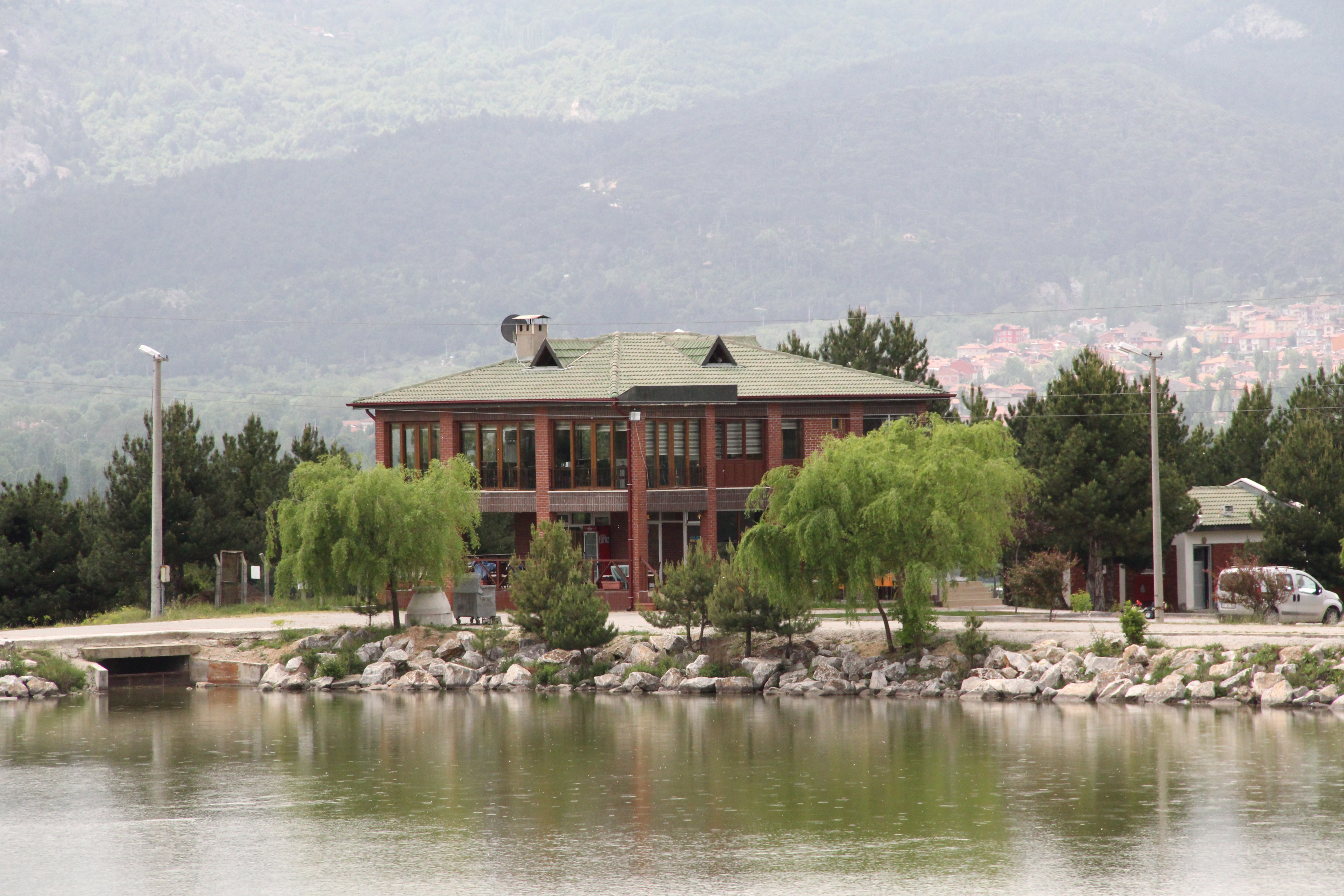 Artificial lake and Gölpark Restaurant in Evliya Çelebi Campus of Kütahya Dumlupınar University